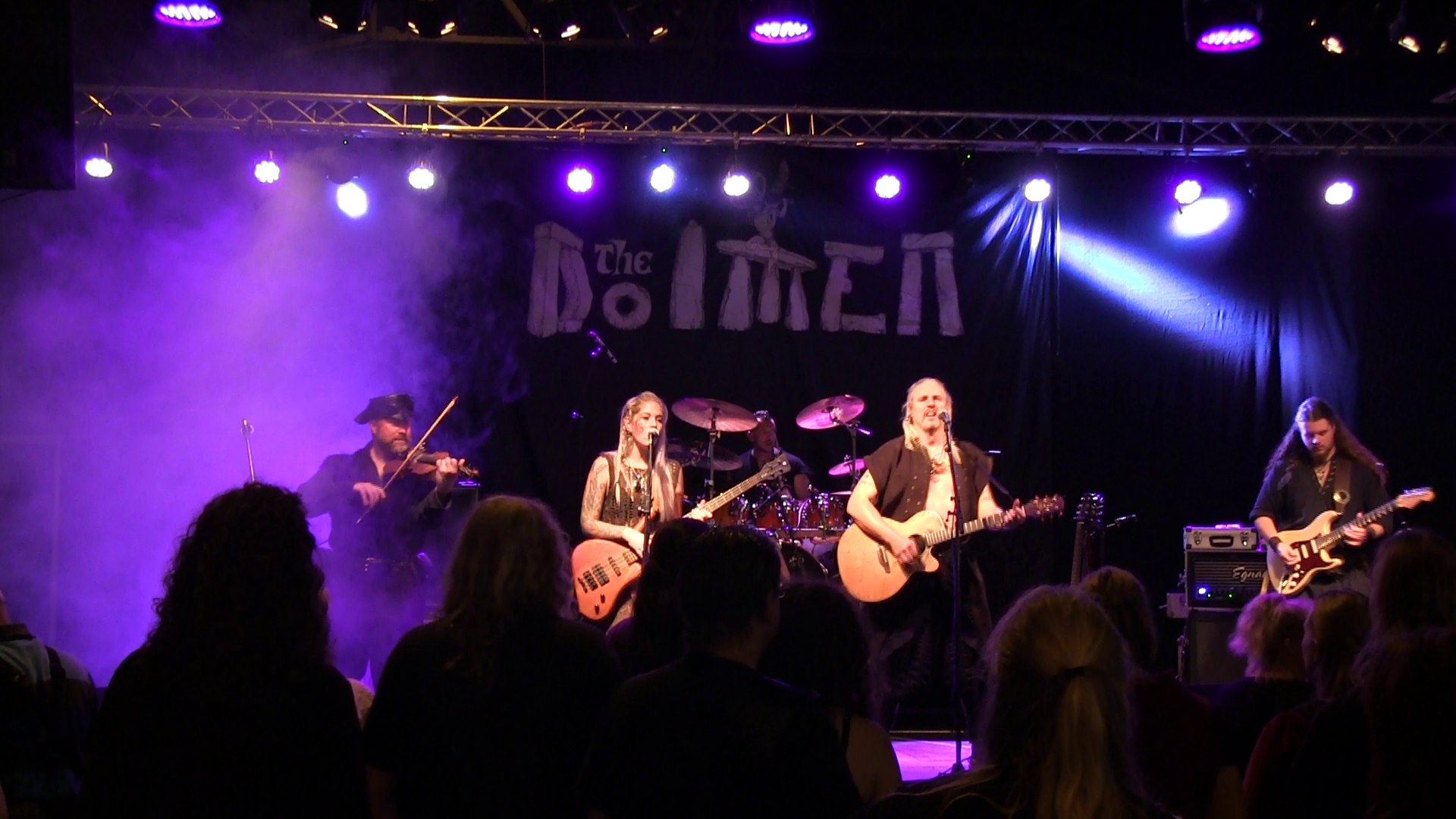 The Dolmen at the Gothic & Fantasy fair in Rijswijk, Netherlands on 18 October 2014